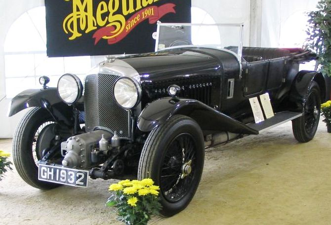 Bentley 4,5l Vanden Plas Tourer Baujahr 1930, Bentley 4½ Litre 1930 supercharged Delivered July 1930 original 4-seater body by Vanden Plas Chassis SM3913 Engine SM3916 Reg GH 1932 Source of data—Vintage Bentleys fotografiert von Ramgeis in Pebble Beach, Kalifornien im August 2004, GNU-FDL